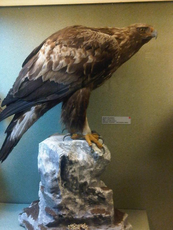 Taxidermied Golden Eagle (Aquila chrysaetos) at the National Museum of Natural History, Vilhena Palace, Republic of Malta.